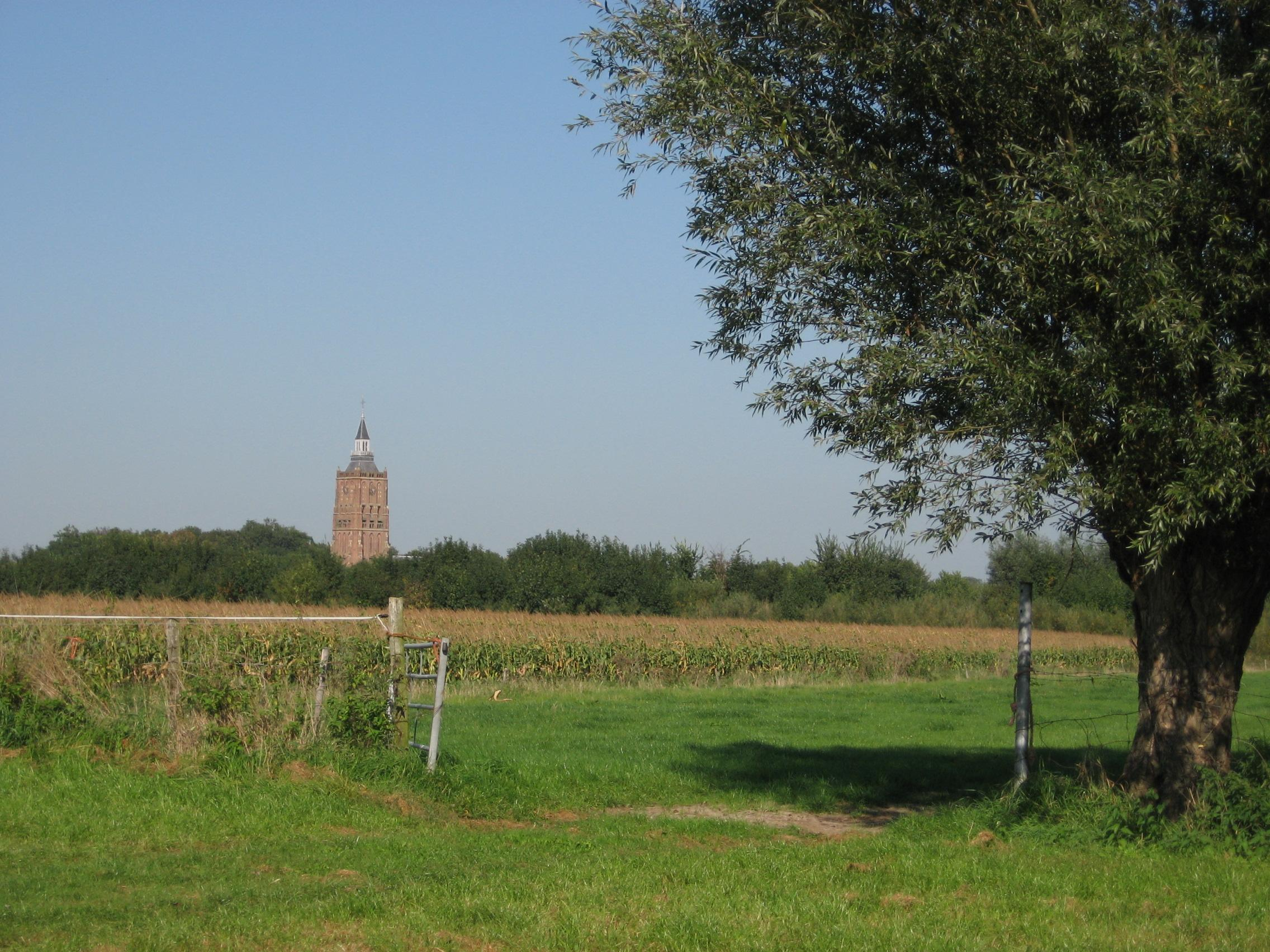 The church of Asperen (The Netherlands) seen from the countryside.